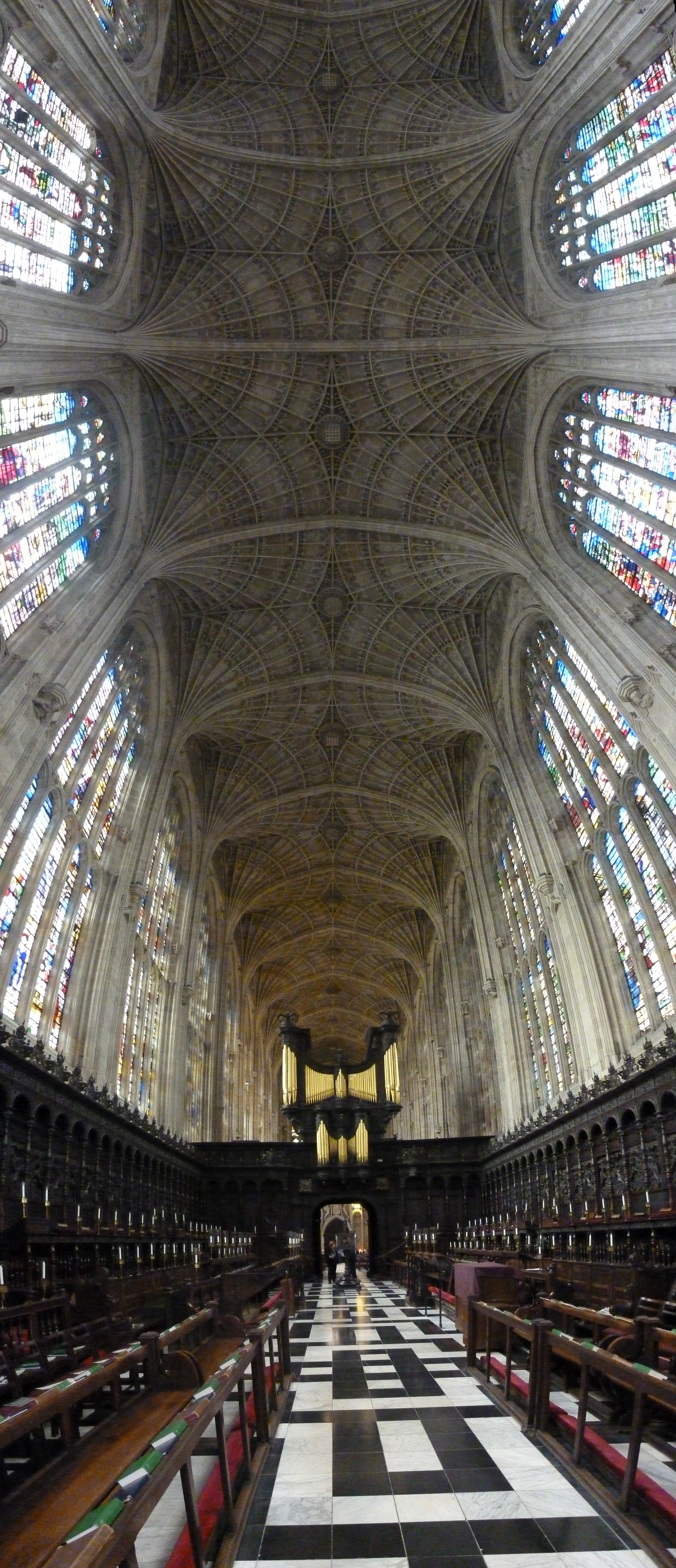 Ceiling of King's college, Cambridge